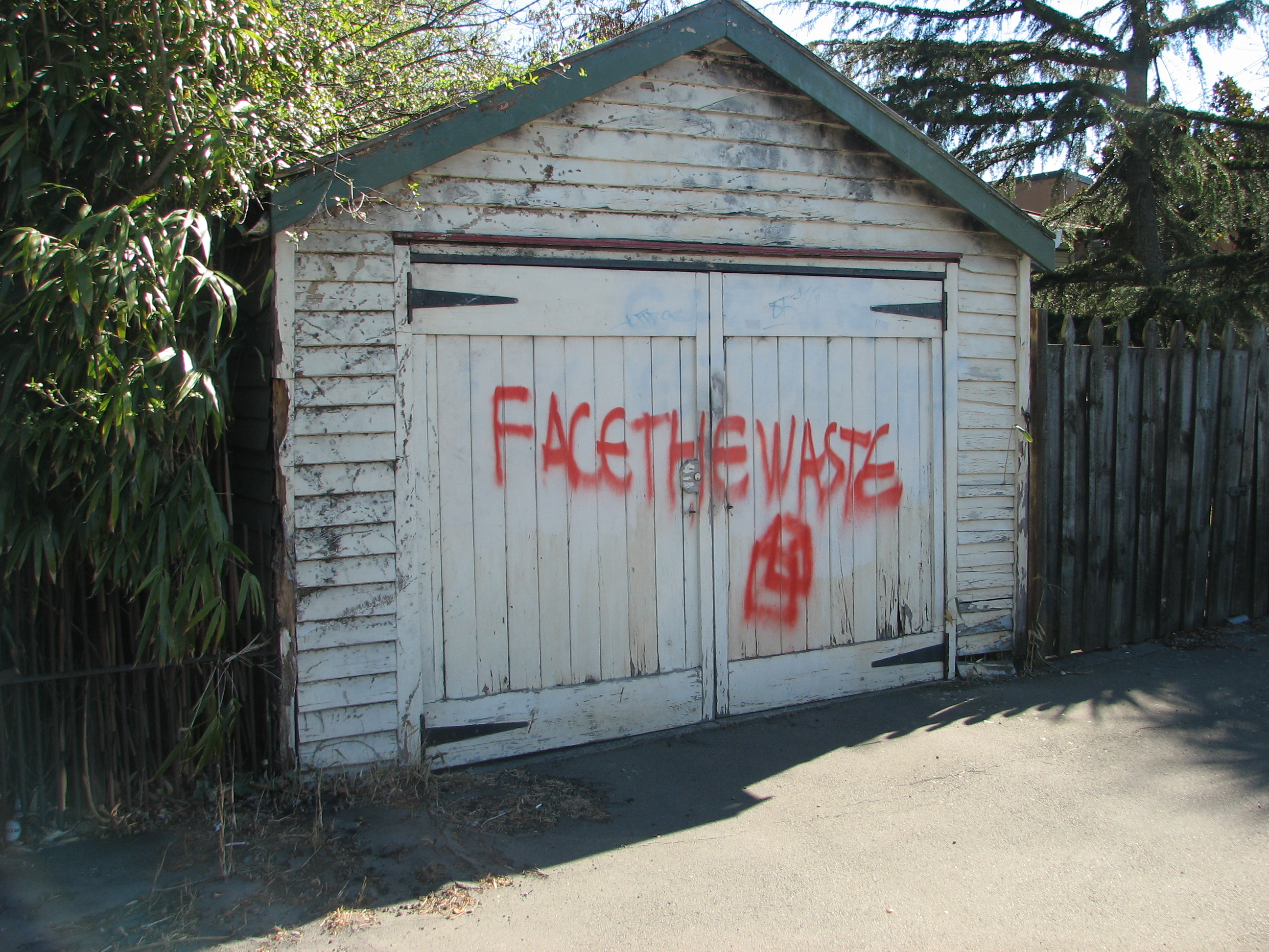 Graffiti stating "FACE THE WASTE" on a garage door in Christchurch, New Zealand.